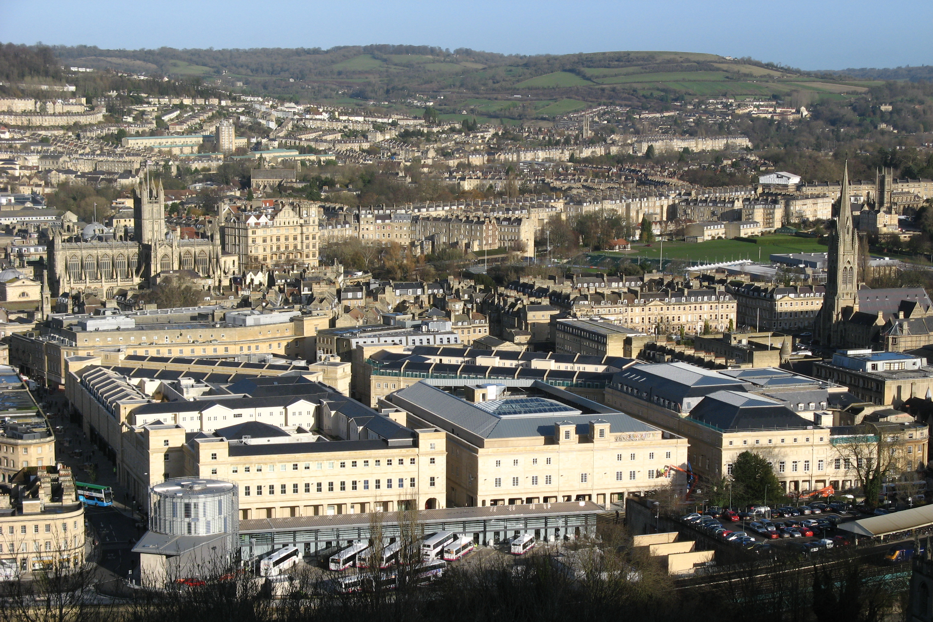 The new SouthGate shopping centre in the foreground, behind the new Bath Bus Station, with the city of Bath in the background. Photo taken from Alexandra Park, at the top of Beechen Cliff.